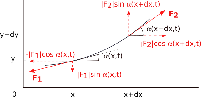 Distribution of tension forces on a vibrating string